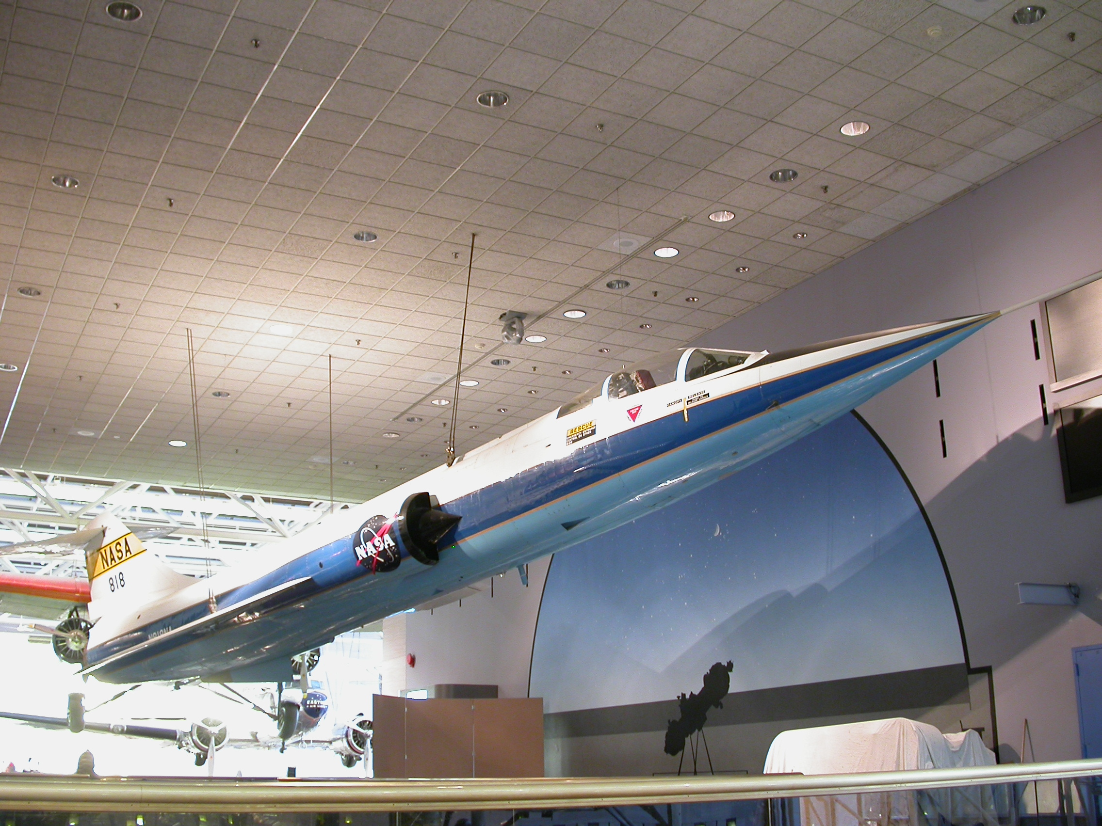 Lockheed F-104 Starfighter, one of 11 were operated by NASA Dryden Flight Research Center, at Edwards Air Force Base, Calif.. Modification: Lockheed F-104A (formerly a YF-104A), military serial number 55-2961, NASA number 818. First NASA flight on August 27. 1956, last operational flight on August 26. 1975, 1.439 flights over this period. 19 NASA pilots flew the 818, among them were three Apollo astronauts, including Neil Armstrong. Photo taken in Smithsonian National Air and Space Museum, Washington, DC, USA in 2004.